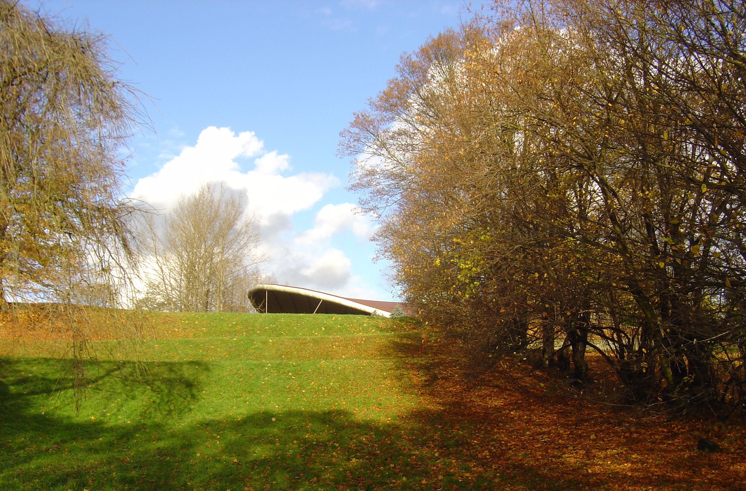 It is Koszalin's park, next to is Koszalin's Amphitheatre